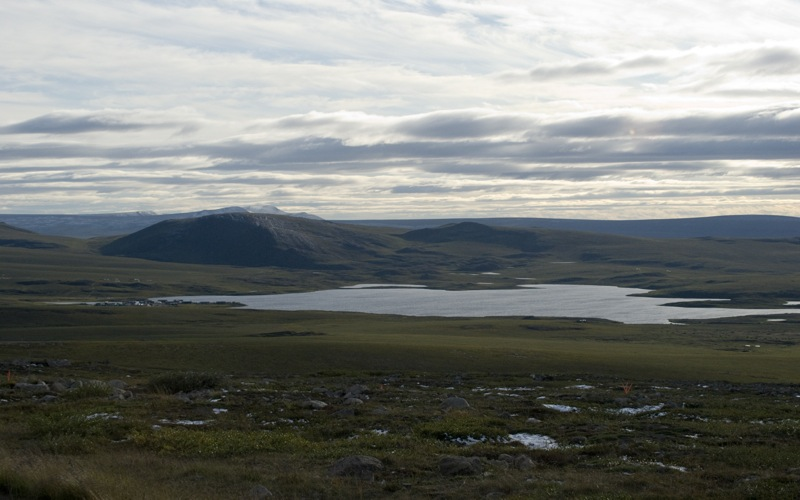 Toolik Lake with the field station where we stayed.